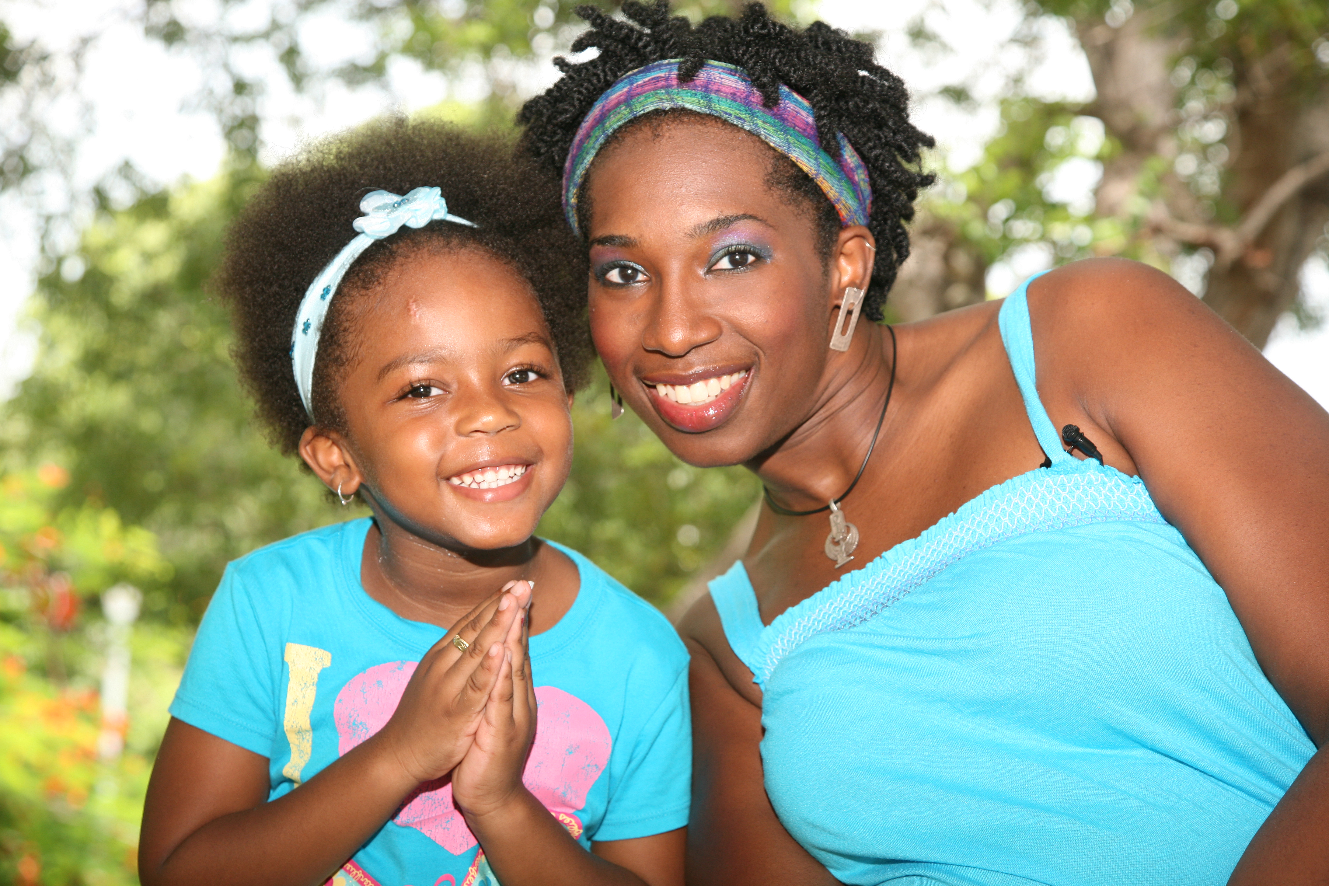 This photo presents Zahra and her daughter after the annual community event Sports Day, which is a non-profit, volunteer-organized event inviting youth to attend and compete at various physical activities. The purpose of the day is to promote fitness and healthy liftestyles